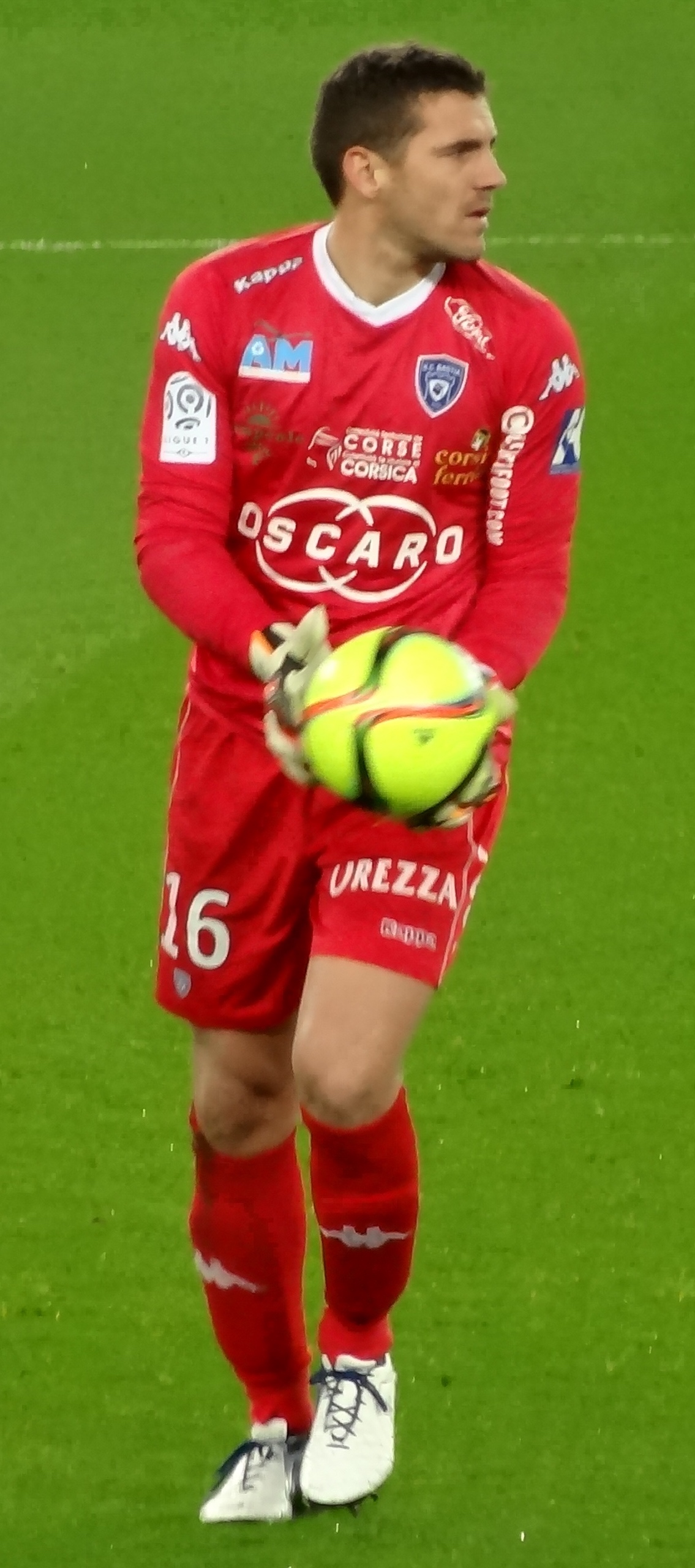 Jean-Louis Leca (SC Bastia)